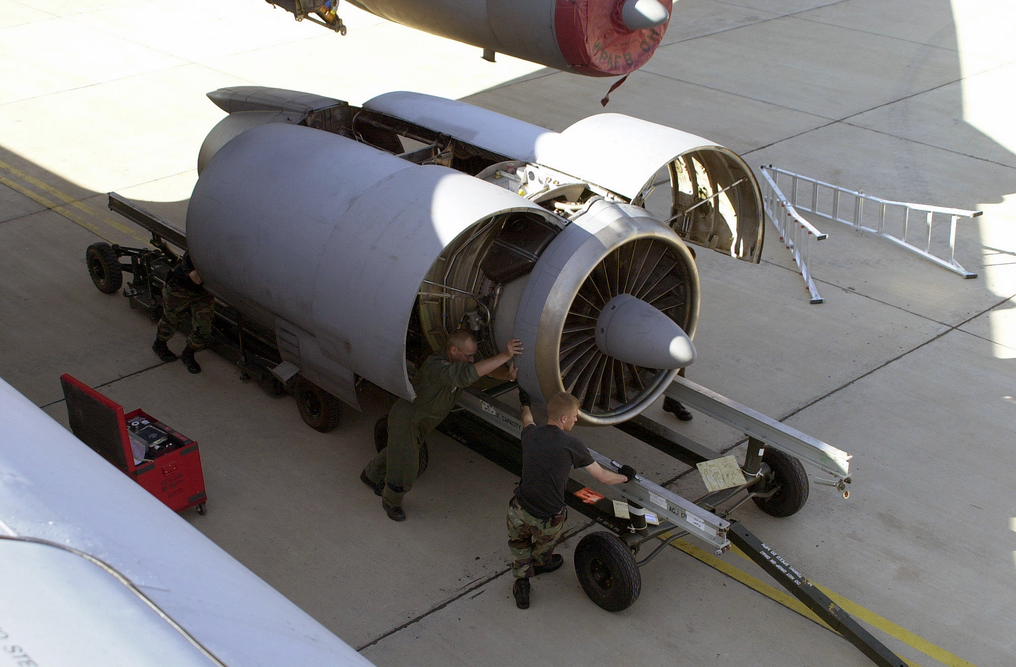 U.S. Air Force Master Sergeant Gregory King (in flight suit), 445th Aircraft Generation Squadron (AGS), Wright Patterson Air Force Base, Ohio (USA), and Technical Sergeant Glenn Holly, 62nd AGS, McChord AFB, Washington (USA), along with two others move a damaged Pratt & Whitney TF33-P-7 turbofan engine to an awaiting engine cart after removing it from a Lockheed C-141B Starlifter, on the ramp at Naval Air Station Sigonella, Sicily (Italy), on 23 October 2001.